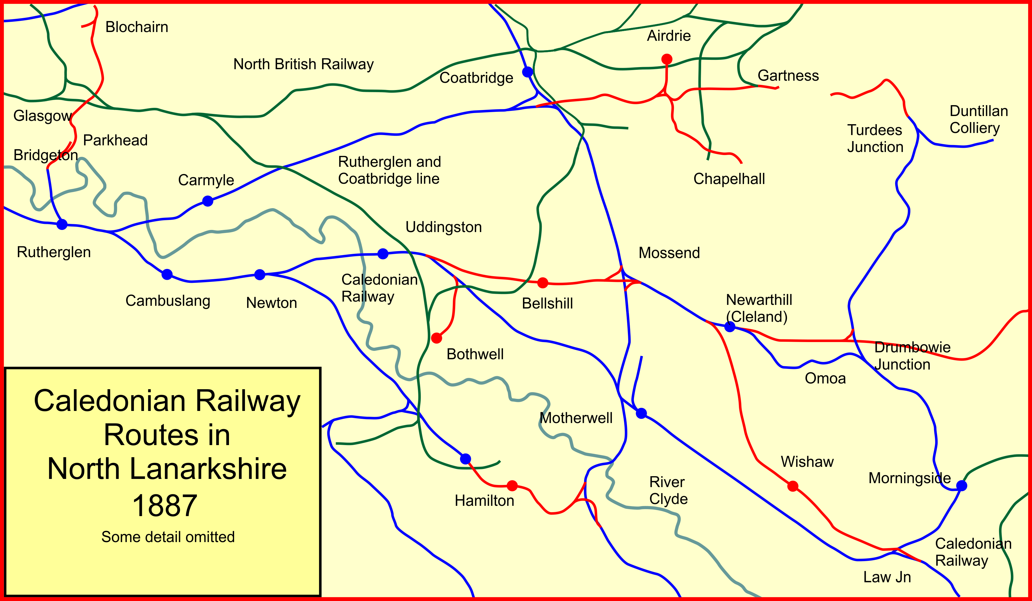 Caledonian Railway lines in North Lanarkshire, Scotland, in 1887